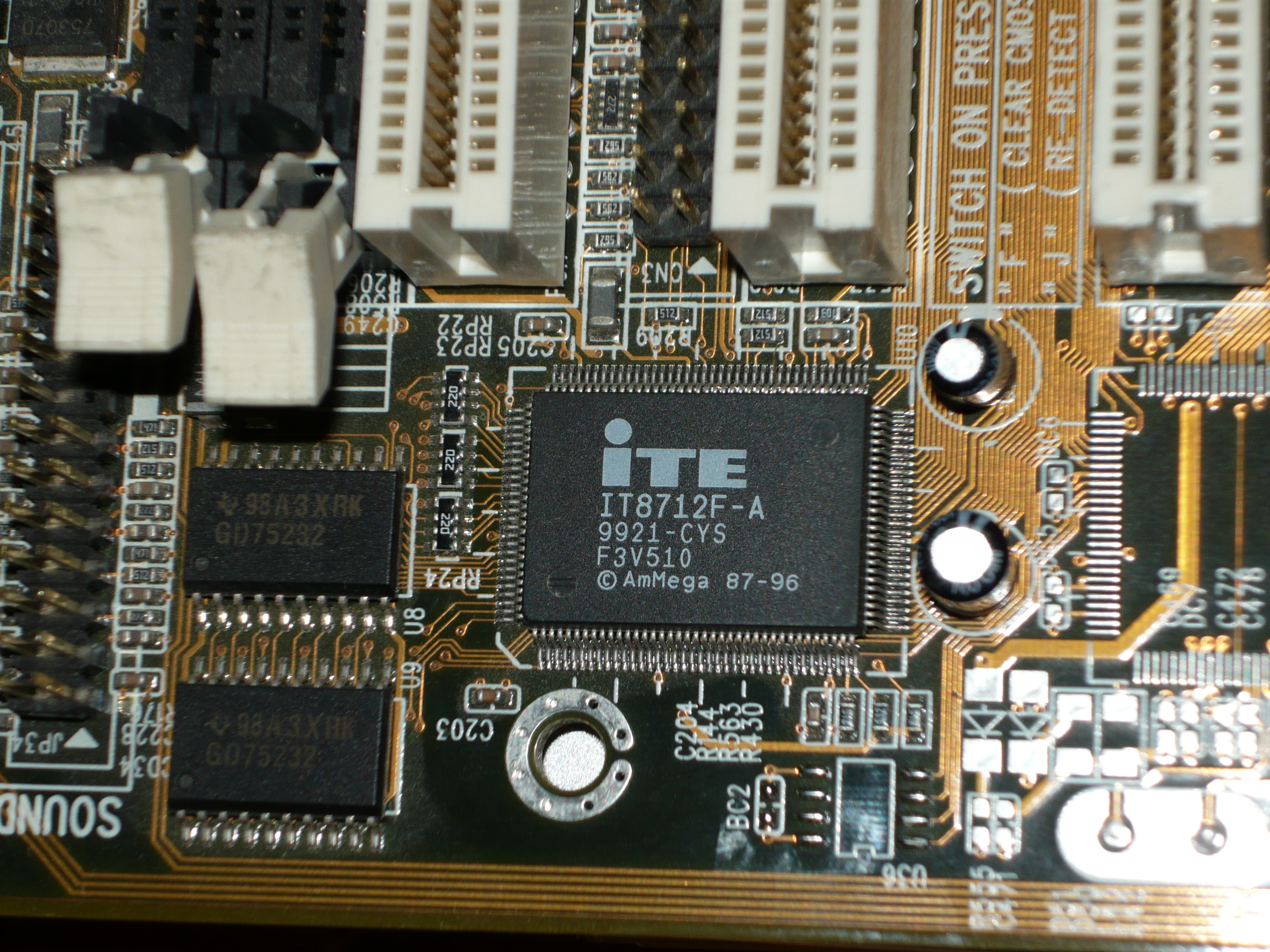 ITE Super I/O chip IT8712F-A and TI RS-232 chip 98A3XRK.